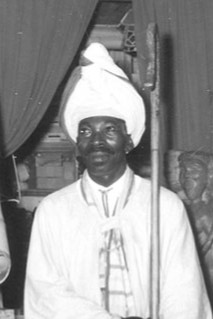 detail from photograph taken at Mallica "Kapo" Reynolds one man show art exhibition at Hills Galleries in Kingston.